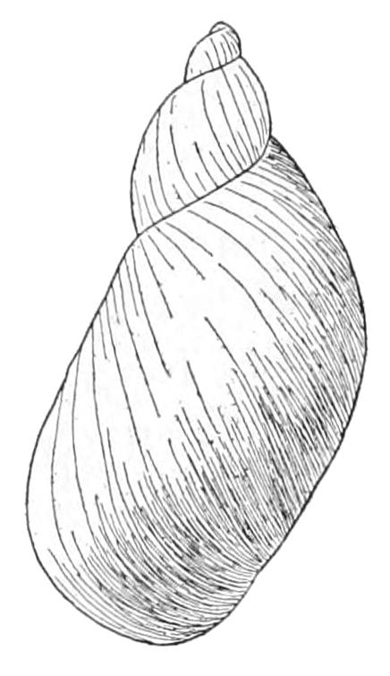 Drawing of the abapertural view of the shell of Novisuccinea chittenangoensis.